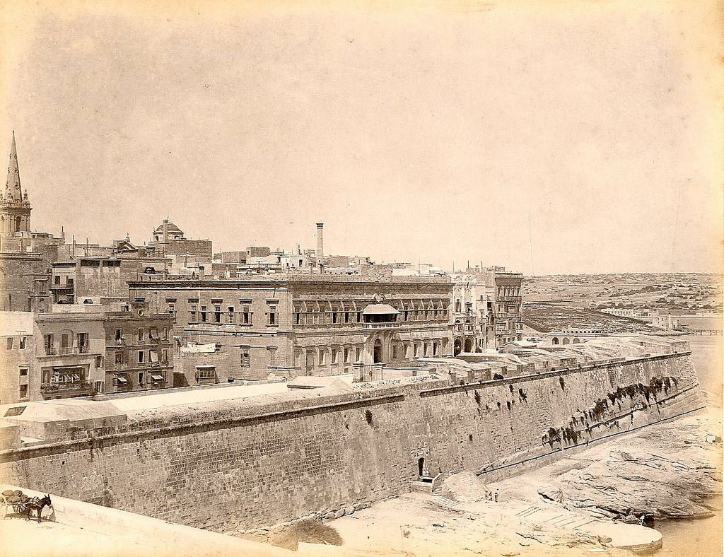 Auberge de Bavière et Angleterre in Valletta